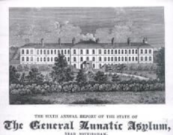 Old print showing The General Lunatic Asylum near Nottingham